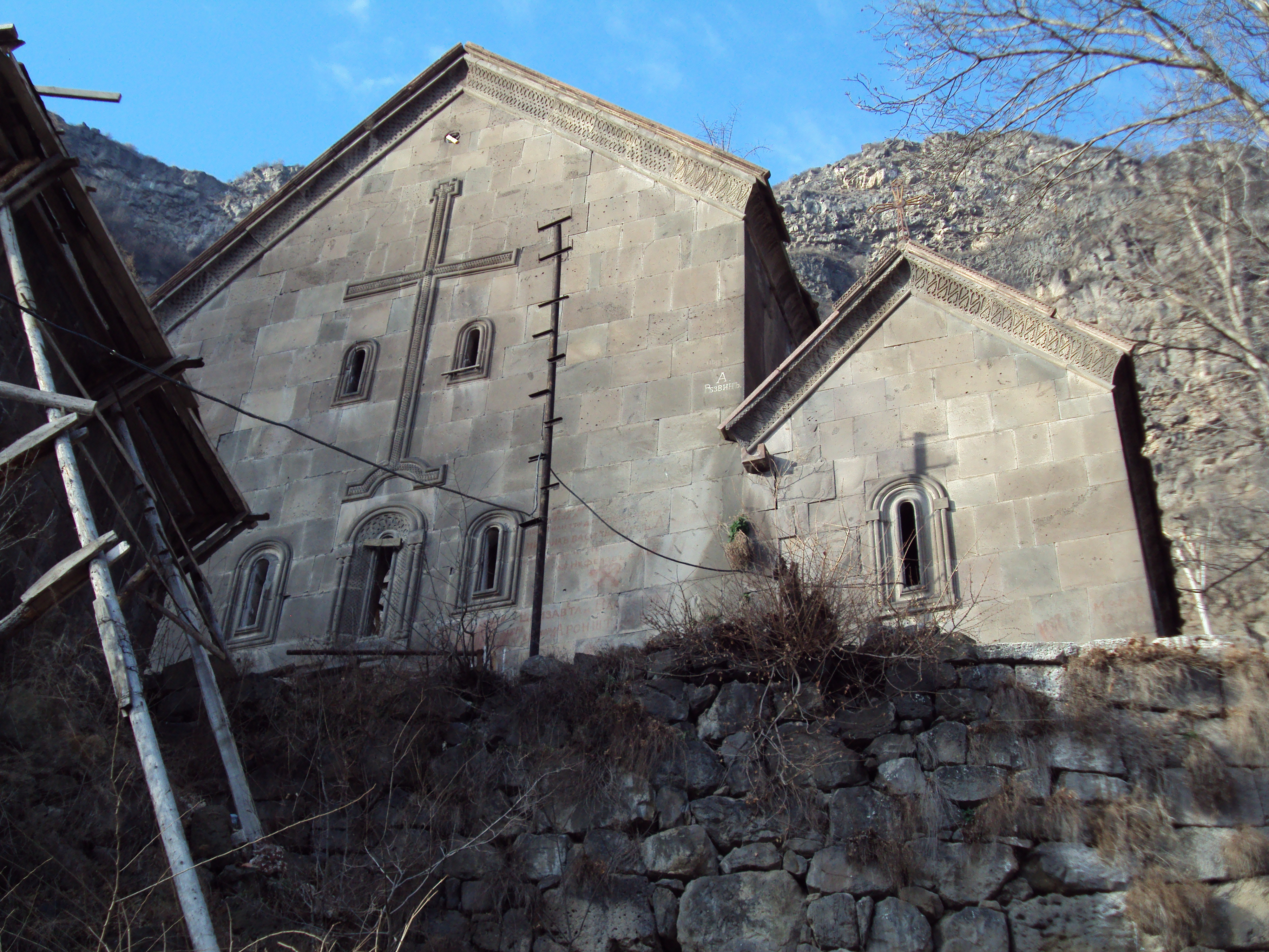 Kobayr (Kober) monastery complex, 12-13cc.